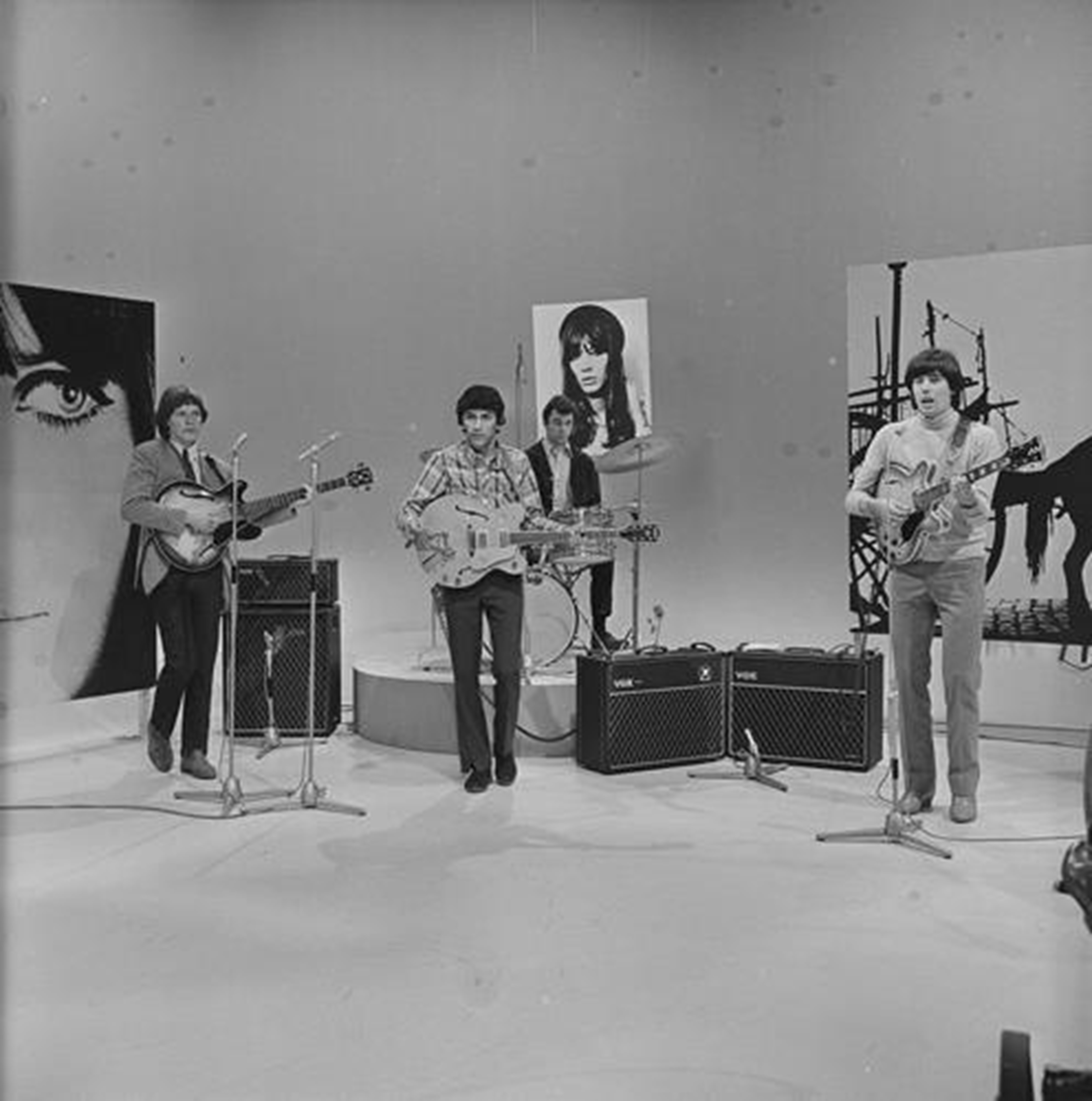 Tony Ronald y sus Kroner's at Dutch TV programme Fanclub. Recording date: 30 April 1966; broadcast 6 May1966.